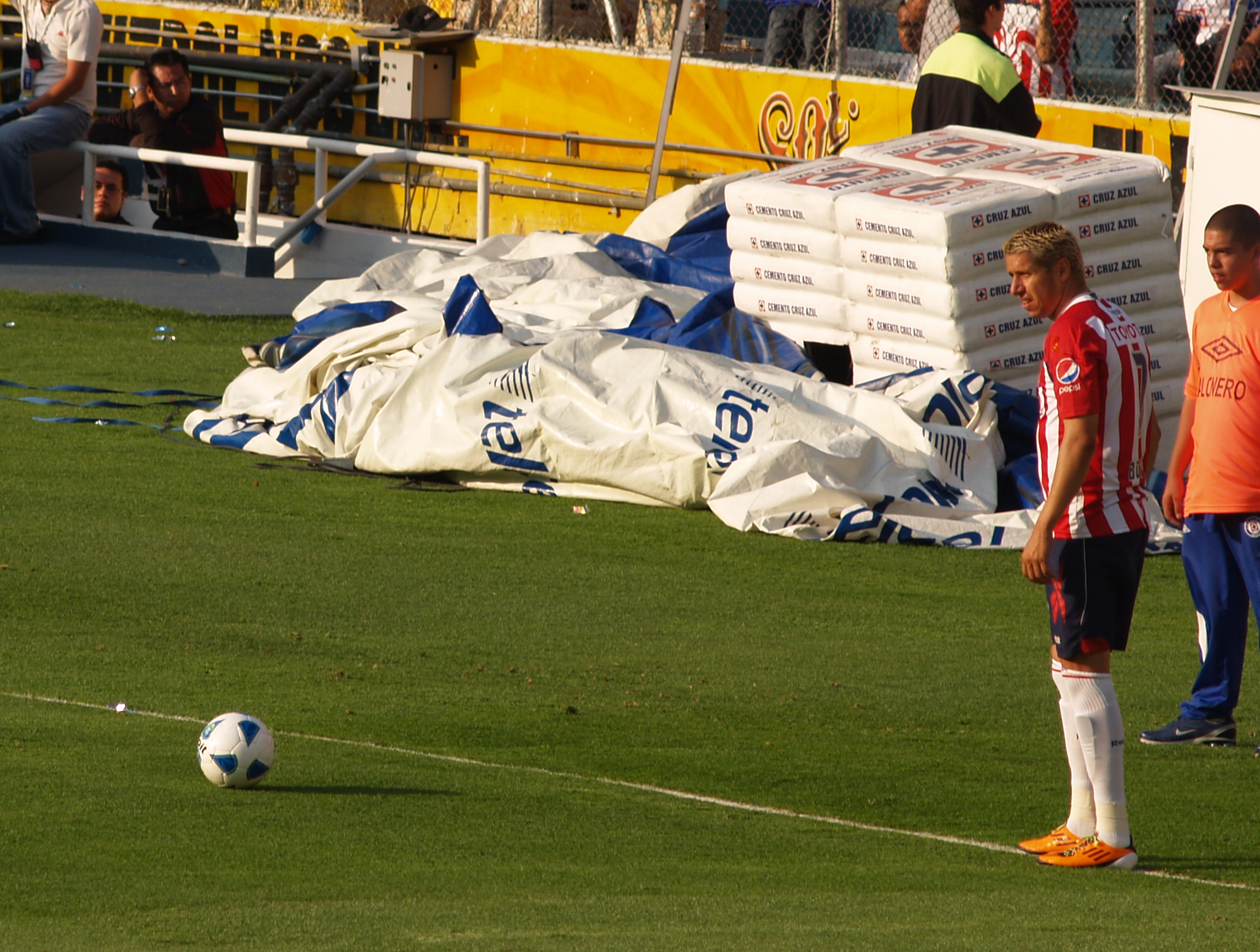 Adolfo "Bofo" Bautista as a player for Chivas Guadalajara